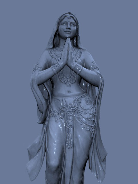 Photograph of Añjali Mudrā (Praṇāmāsana).